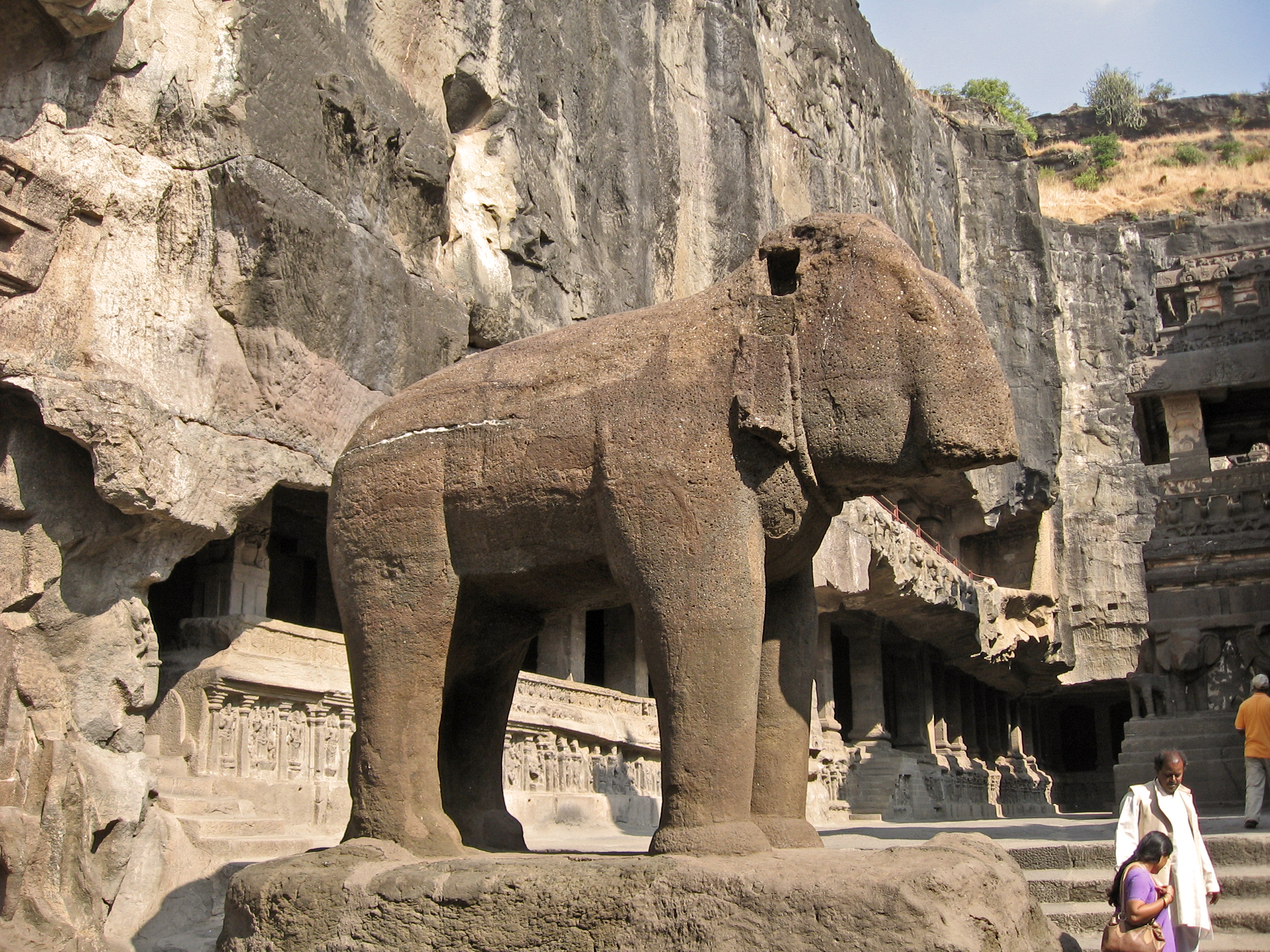 An elephant statue at Kailash temple